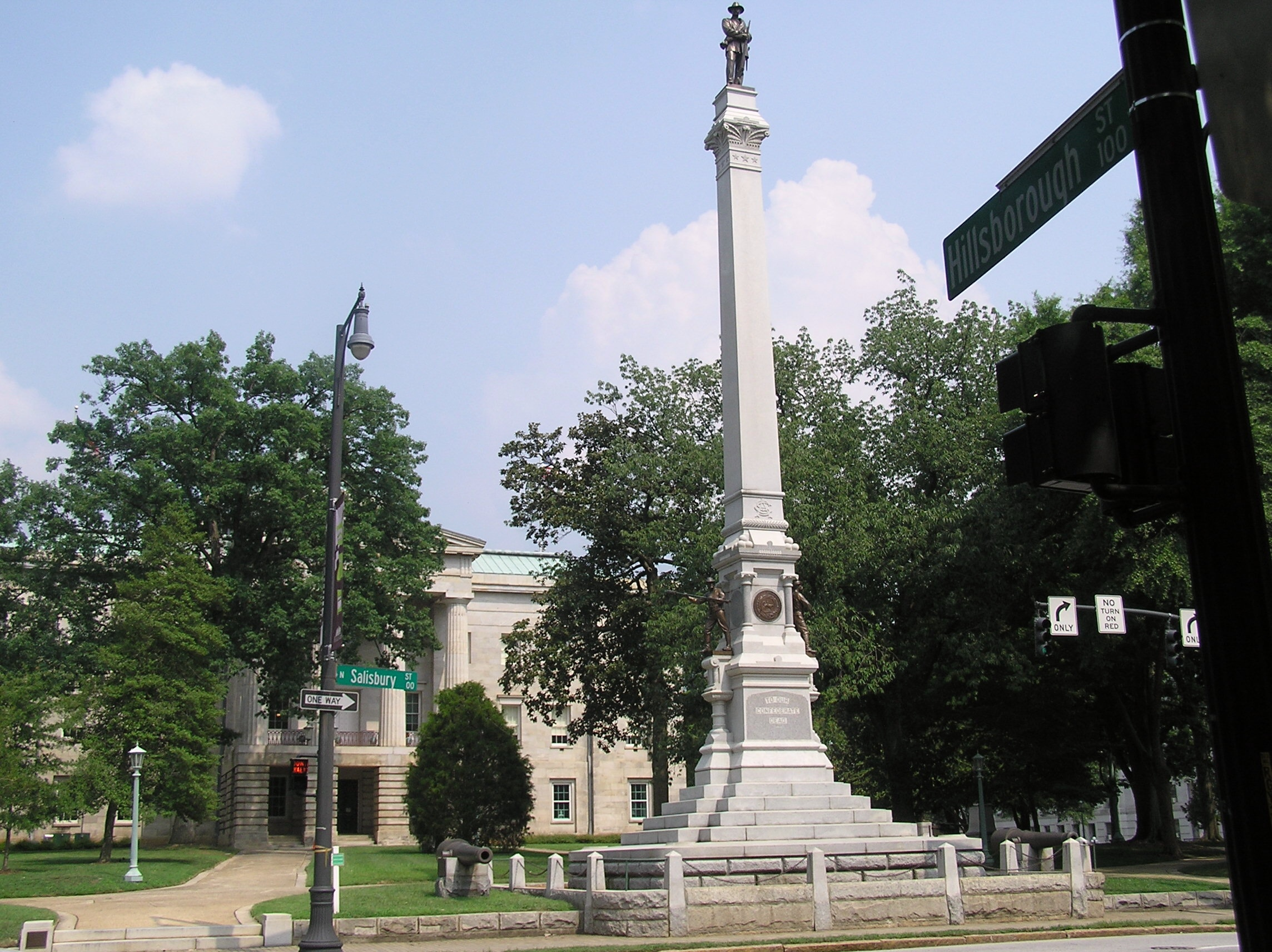 Raleigh, NC Confederete Monument